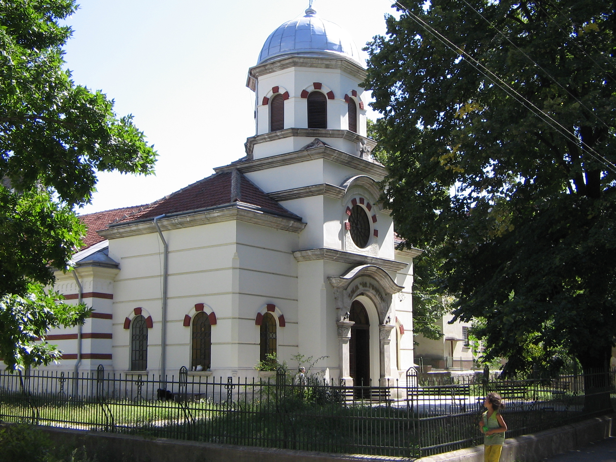 The St Georgi Church in Rousse, Bulgaria.